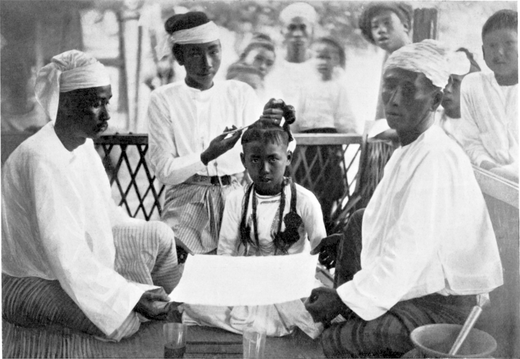 Cutting the hair (ဆံချ) Every Burman must enter the monastery and wear the yellow robe of the monk before he can become a Buddhist and a human being. He makes a tour of the town in gala dress, ending at the monastery; there his hair is cut off and preserved by his relatives. မြန်မာဘာသာ: ဆံချပေးနဲ့သည့်မိသားစုနှင့် ရှင်လောင်းကို တွေ့ရစဉ်။